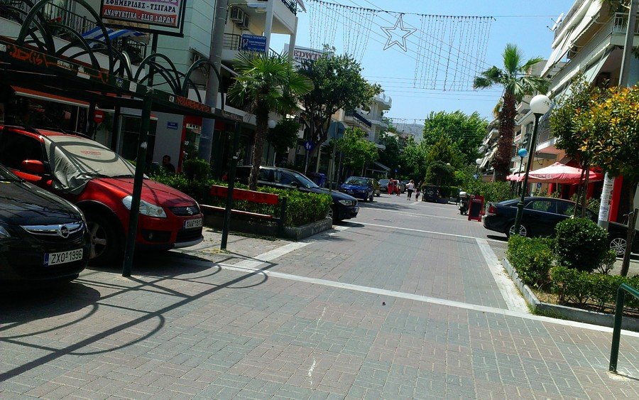 peristeri